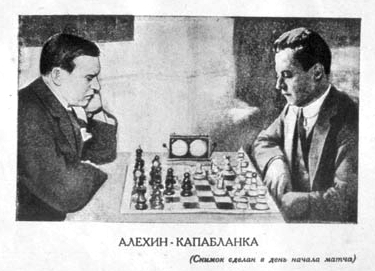 Photomontage [1] of Capablanca and Alekhine. The left part of the montage is taken from a photo of Alekhine taken in March 1926 in Semmering (Austria). The right part of the montage is taken from a flopped version of a photo of Capablanca taken before 1926.